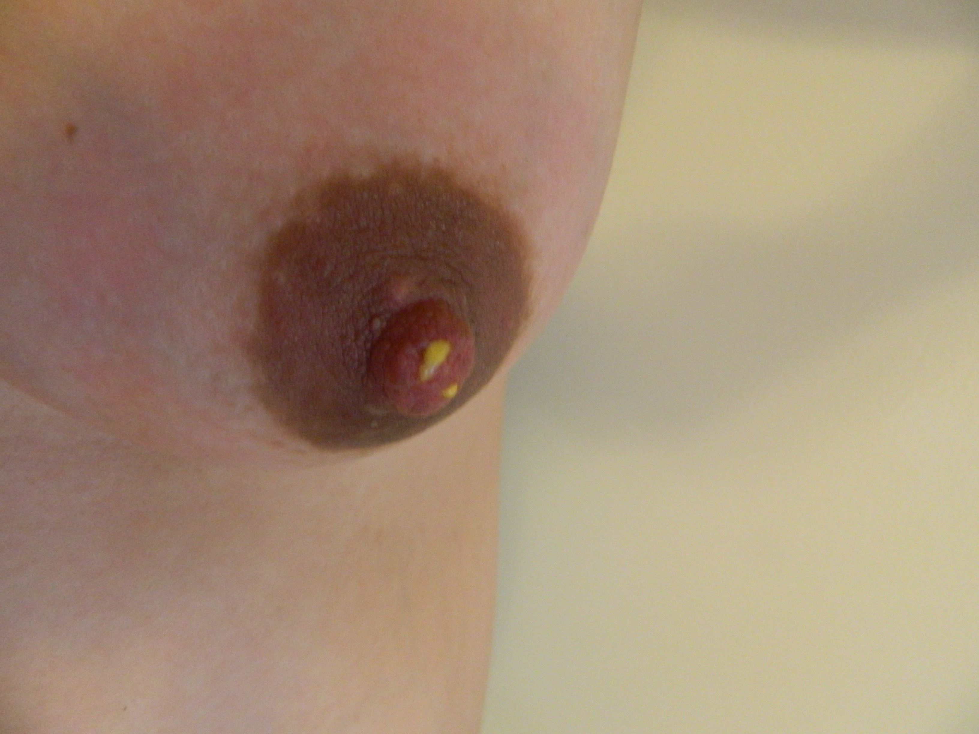 Colostrum expressed from the nipple of a 40-week pregnant woman